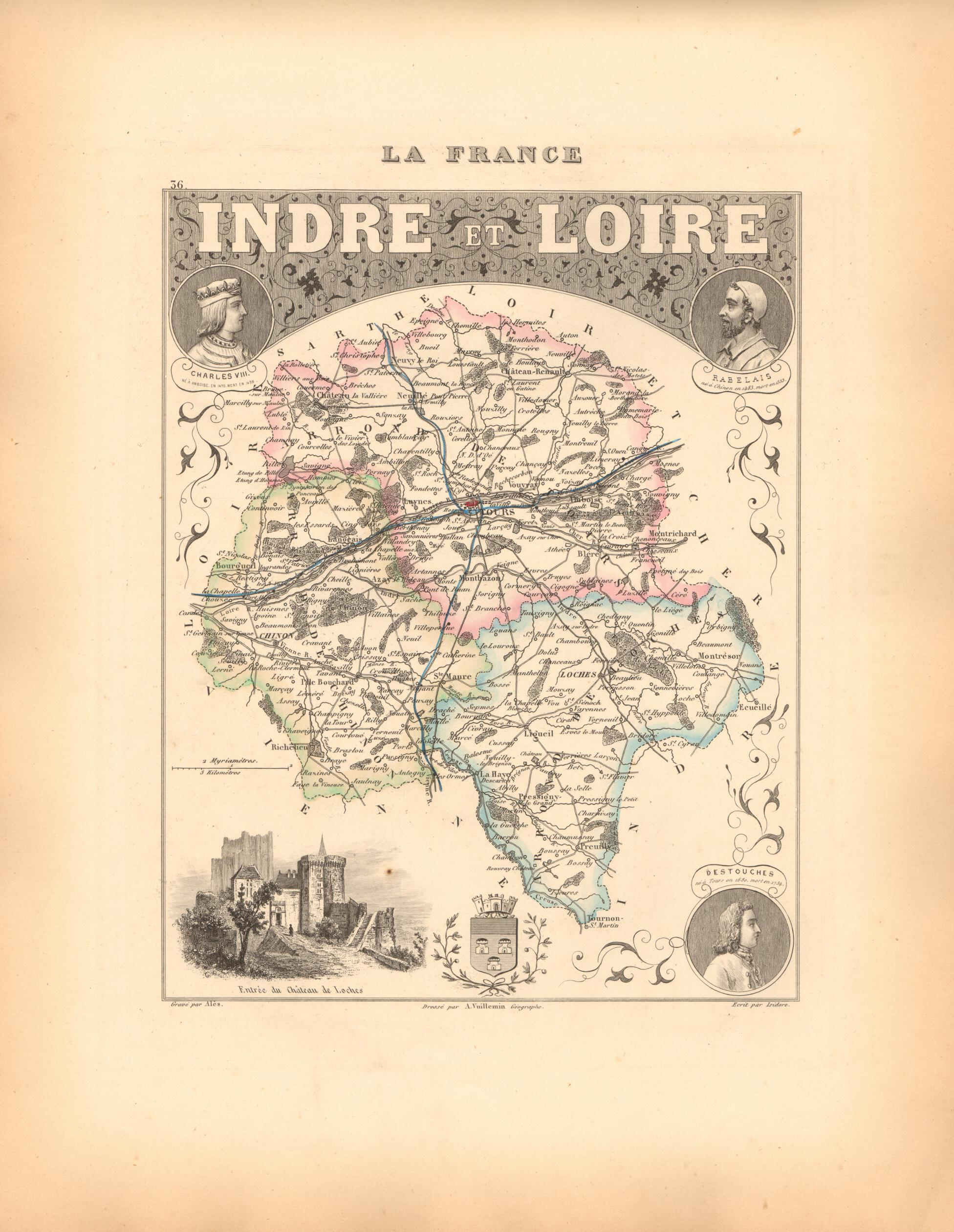 Source: "France and its Colonies" by Alexandre Vuillemin, 1858. url: fair use rationale: Public Domain and permission from photographer.